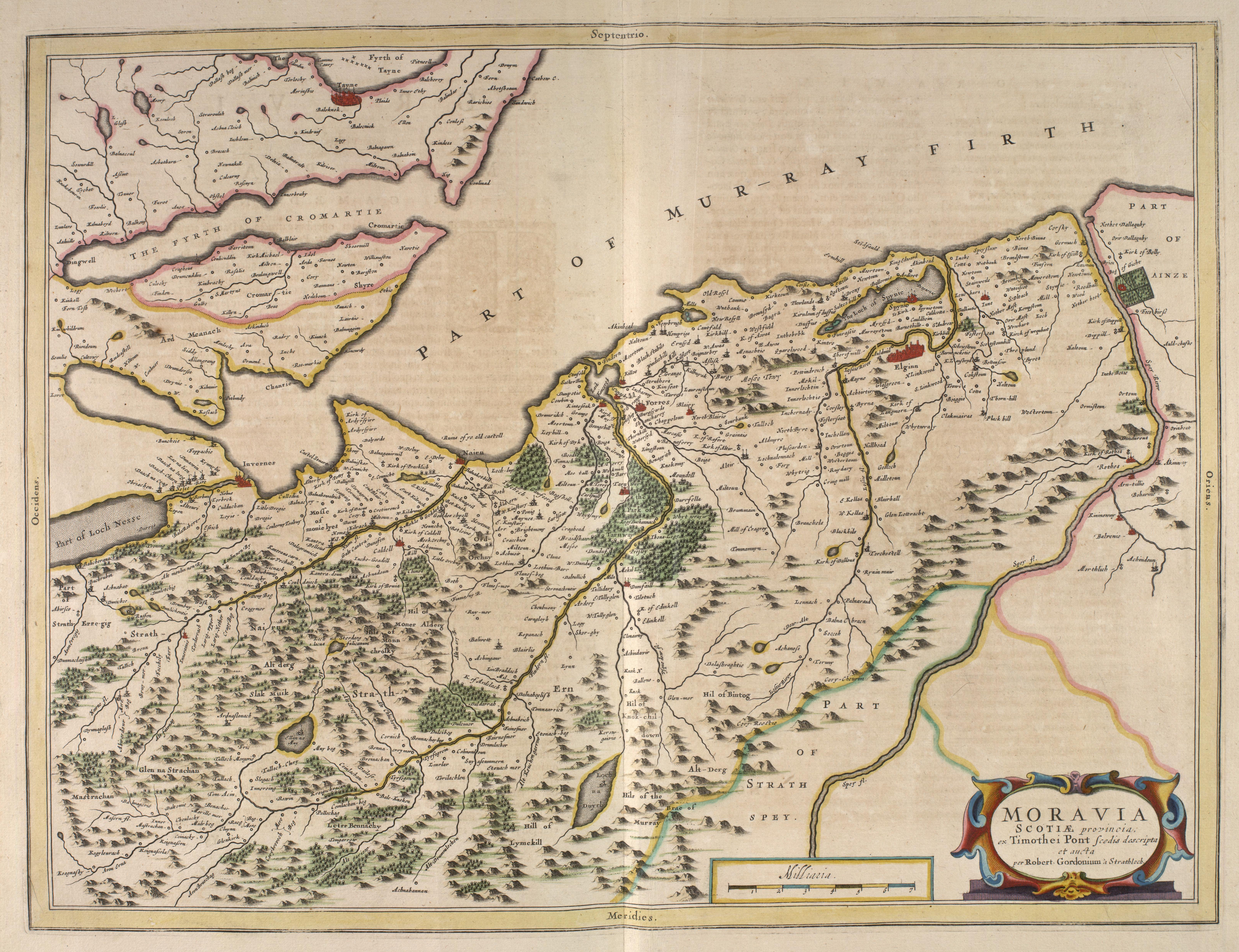 MORAVIA - Moray and Nairn